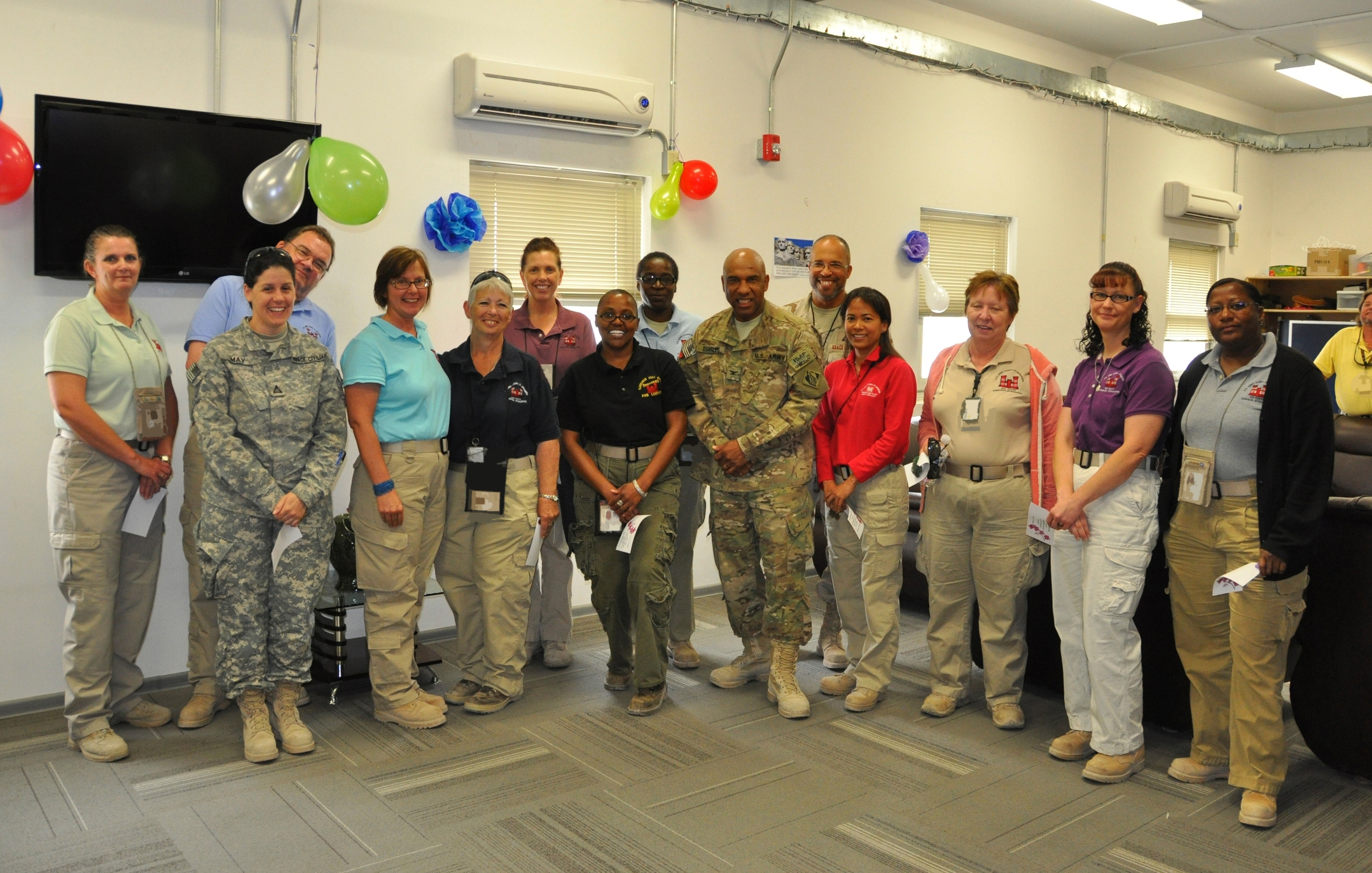 The district family celebrated Administrative Professionals’ Day today and gave thanks to our admin professionals who, equipped for the task, are ready to achieve so many essential missions, large and small, for the people of this district. Administrative Professionals’ Day is an unofficial secular holiday observed in several countries to recognize the work of secretaries, administrative assistants, receptionists, and other administrative support professionals.